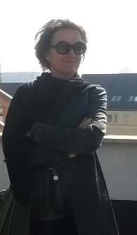 Sabine Pollak, austrian architect, teacher at Kunstuniversität Linz